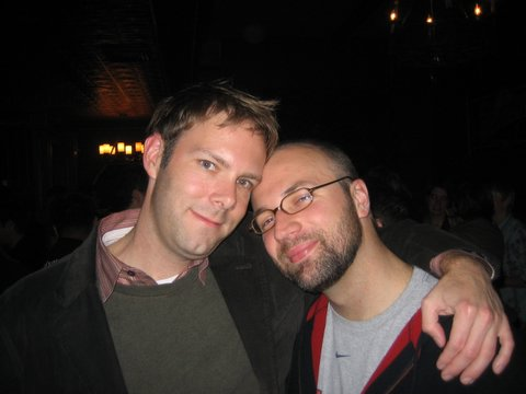 John & Jamie / The Old Married Couple / "Sometimes we like each other"